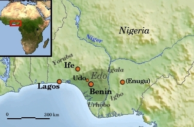 Historical Edo state (Benin) in W-Africa, w/ scale